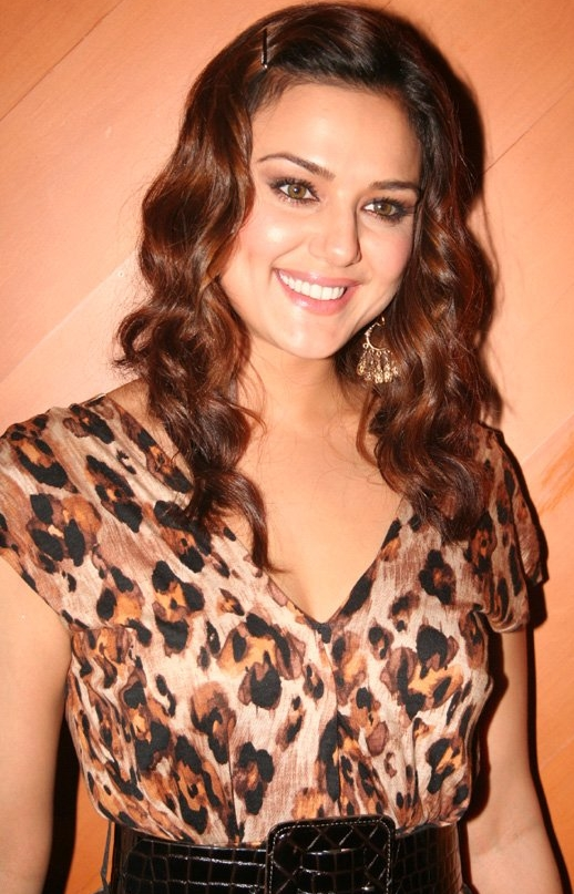 Indian actress Preity Zinta